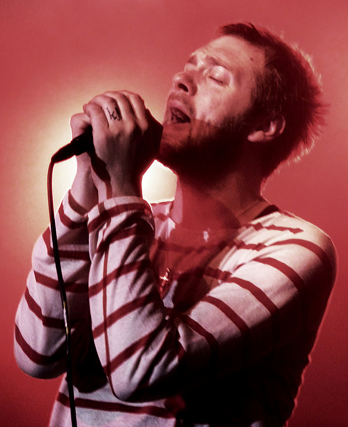 Tom Meighan performing live with Kasabian in Terville, France, 2010.